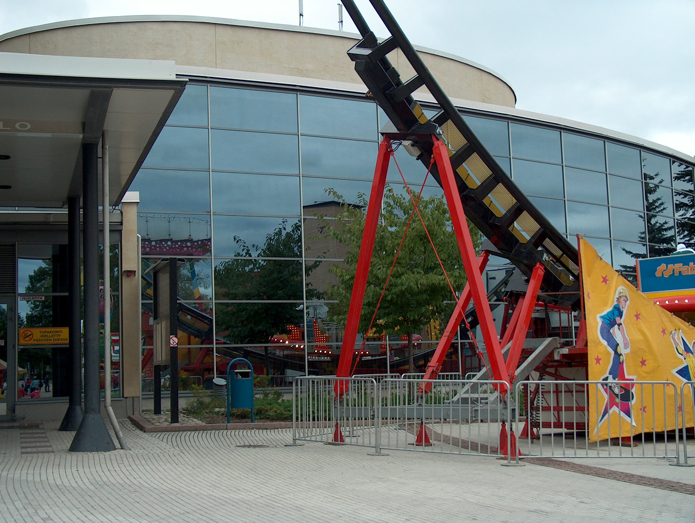 Reflections on the glass wall of Keuda House during Circus Festival 2006 in Kerava